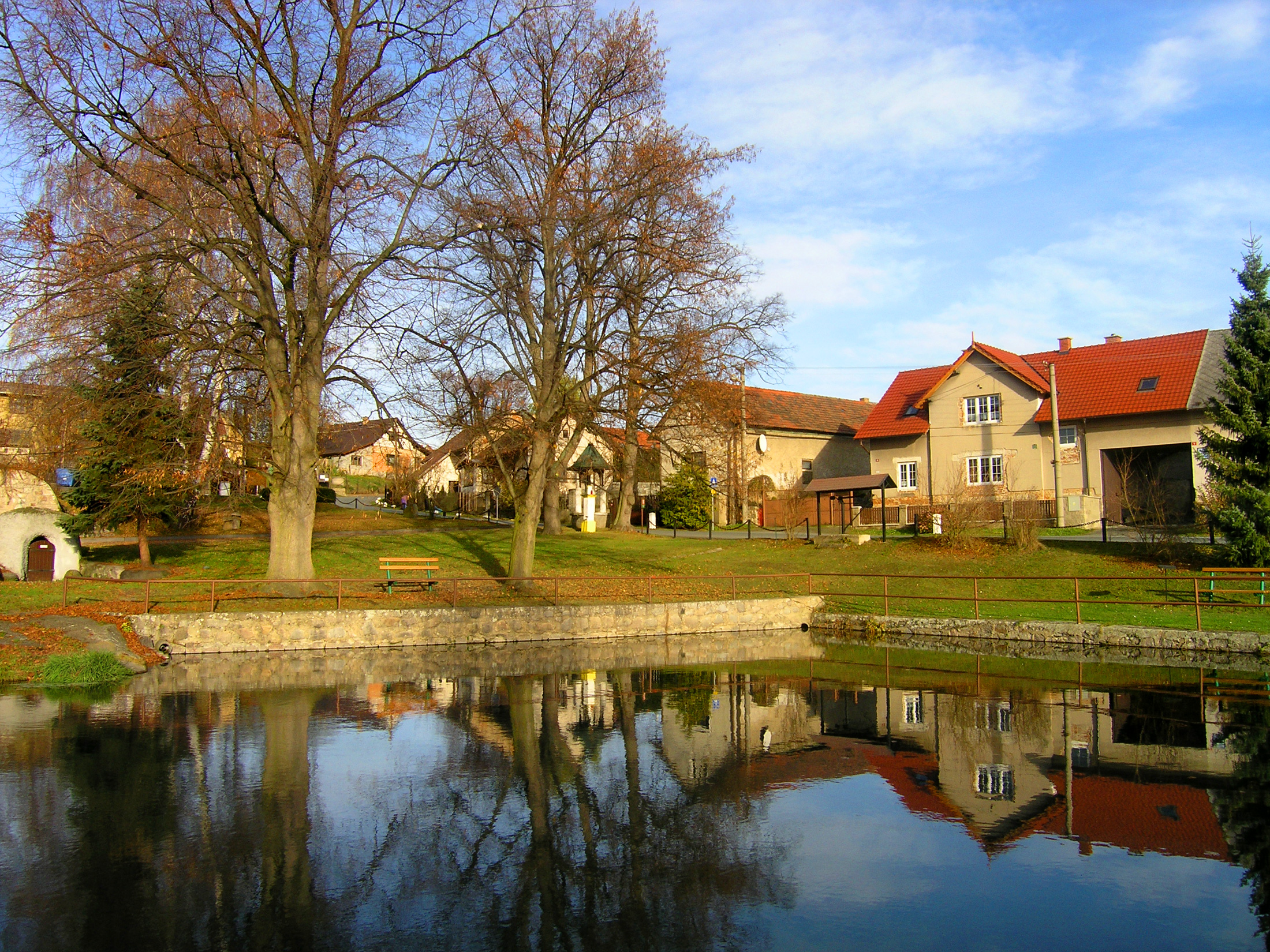 Common in Klokočná, Czech Republic